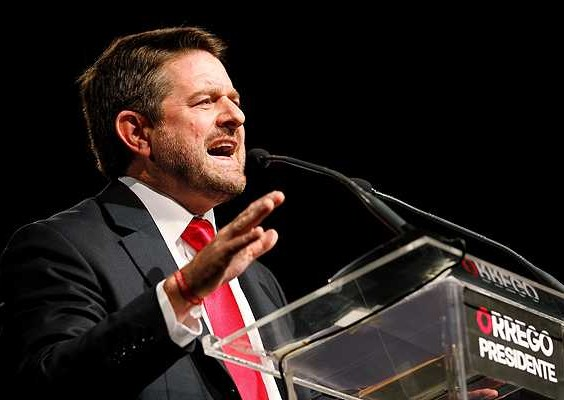 Speech of Claudio Orrego for the Concertación primaries campaign for the 2013 Chilean presidential election.